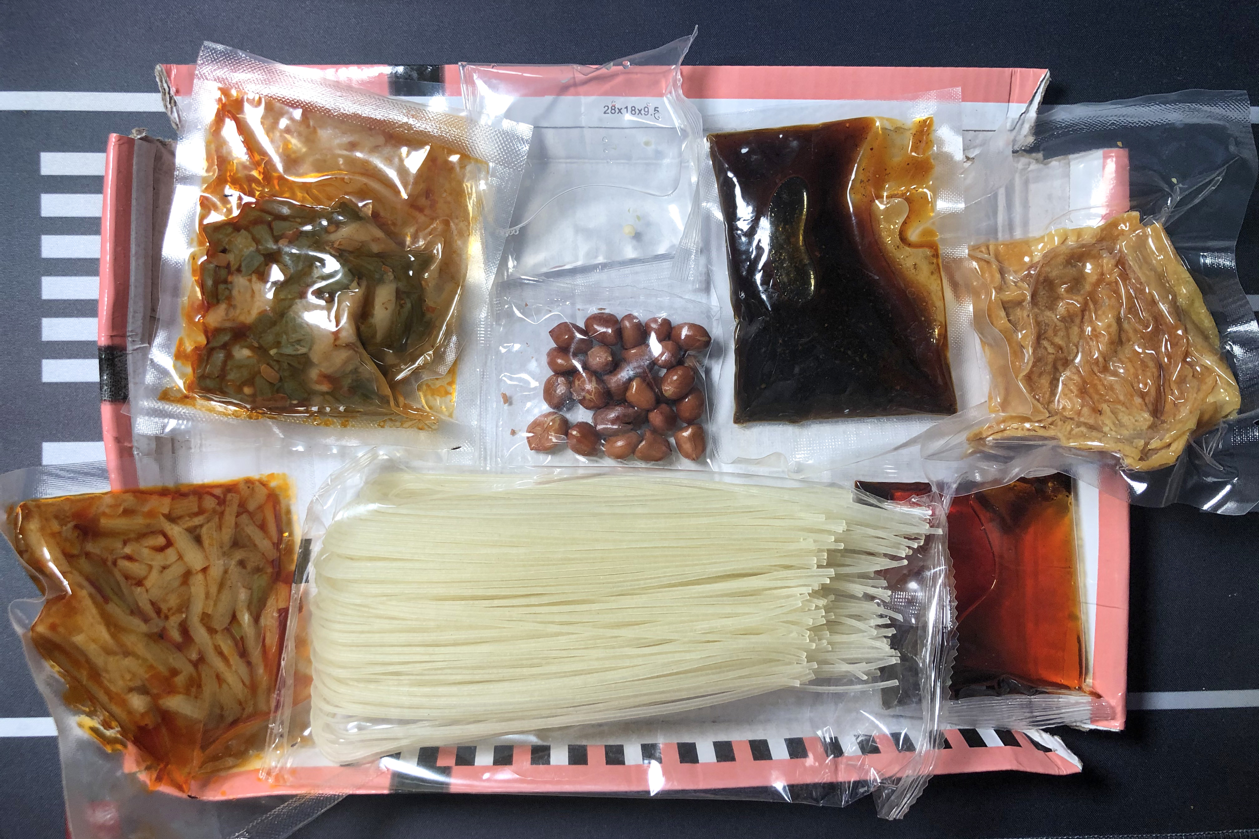 Now everyone can cook this speciality at home.